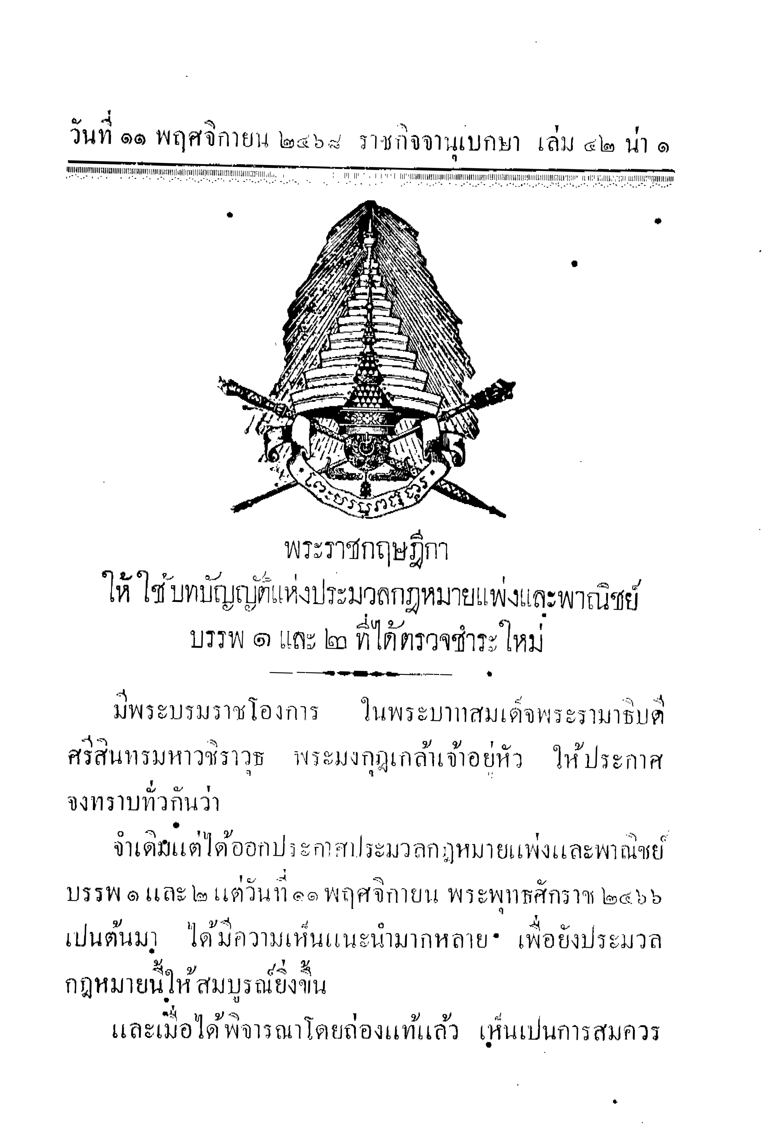 The Royal Decree Promulgating the Revised Provisions of Book 1 and Book 2 of the Civil and Commercial Code. Published in the Government Gazette of Thailand: volume 42/page1/November 11, 1929.